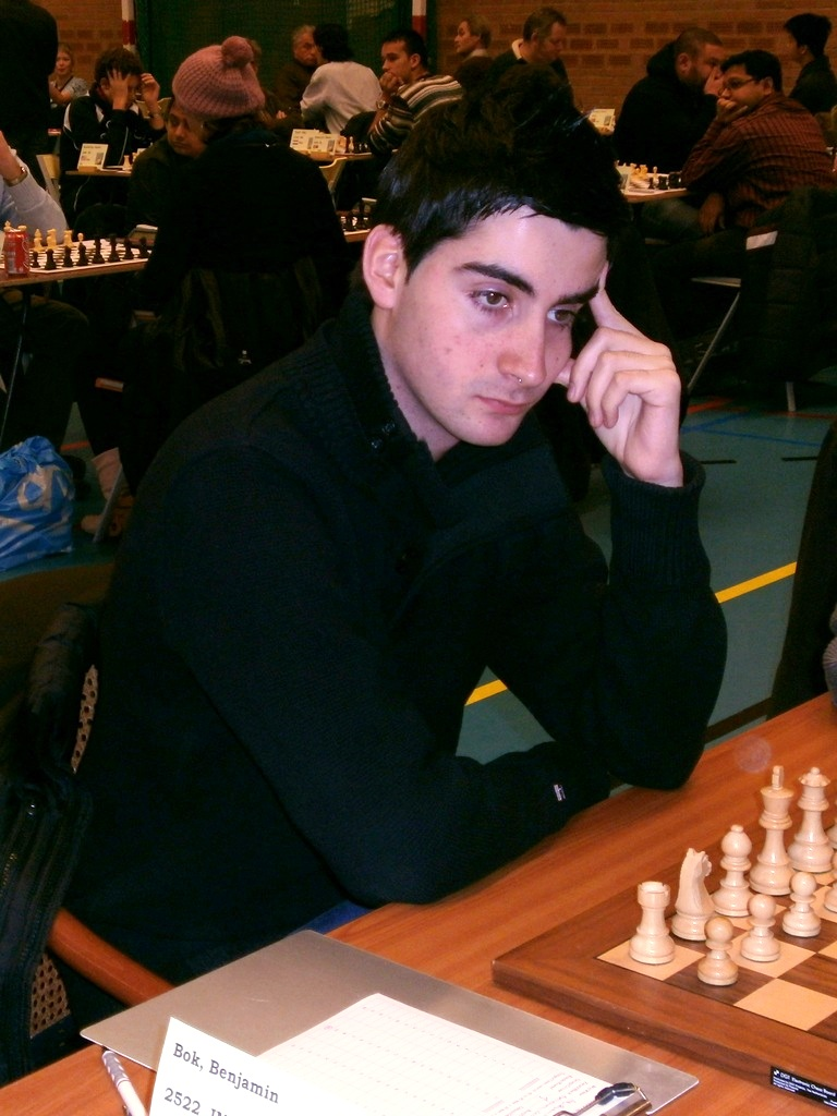 Benjamin Bok playing in the Groningen Chess Festival 2012 in Groningen (the Netherlands)